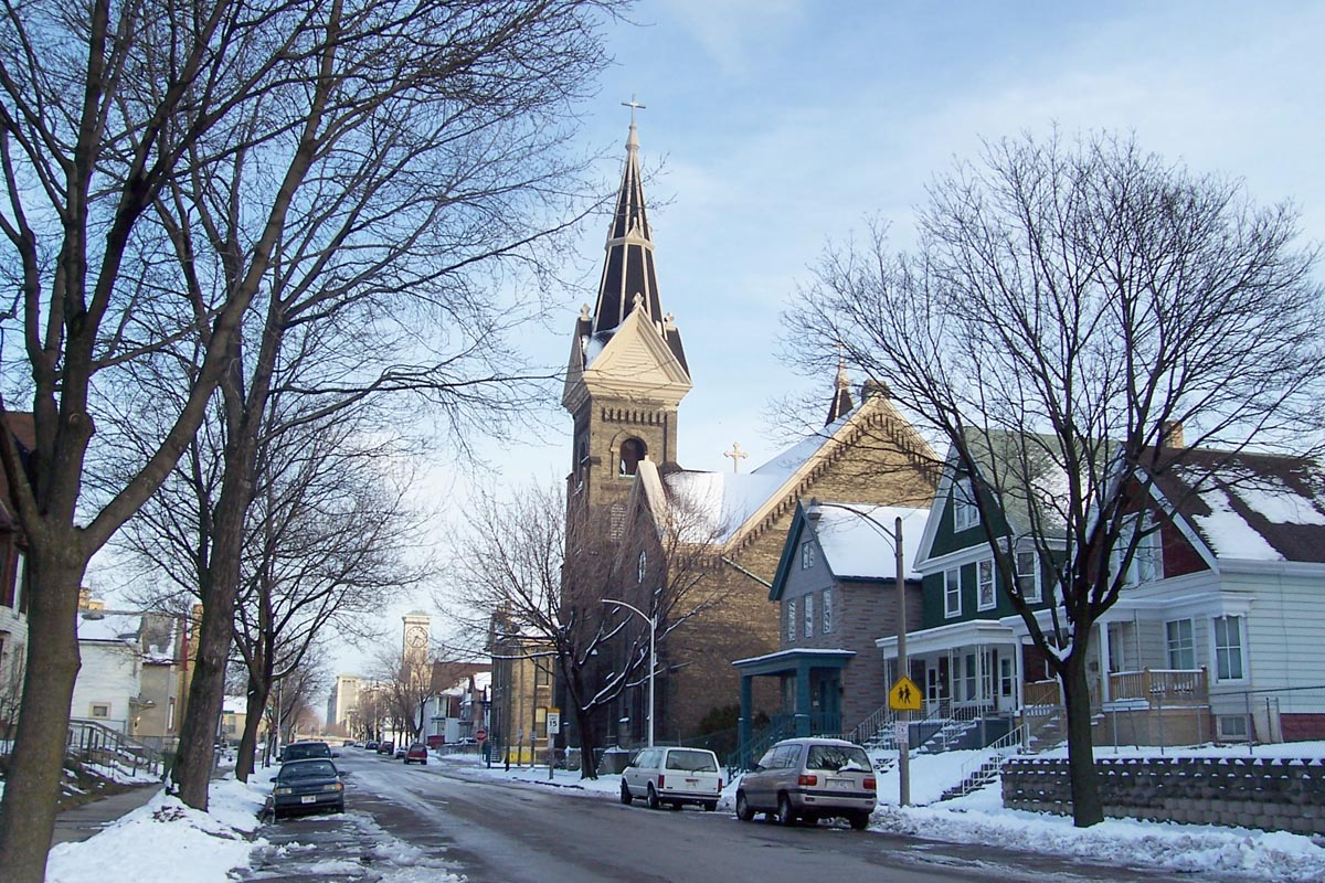 Copyright © 2006 Sulfur St. Peter's Evangelical Lutheran Church is located in the historic Walker's Square district of Milwaukee, Wisconsin.